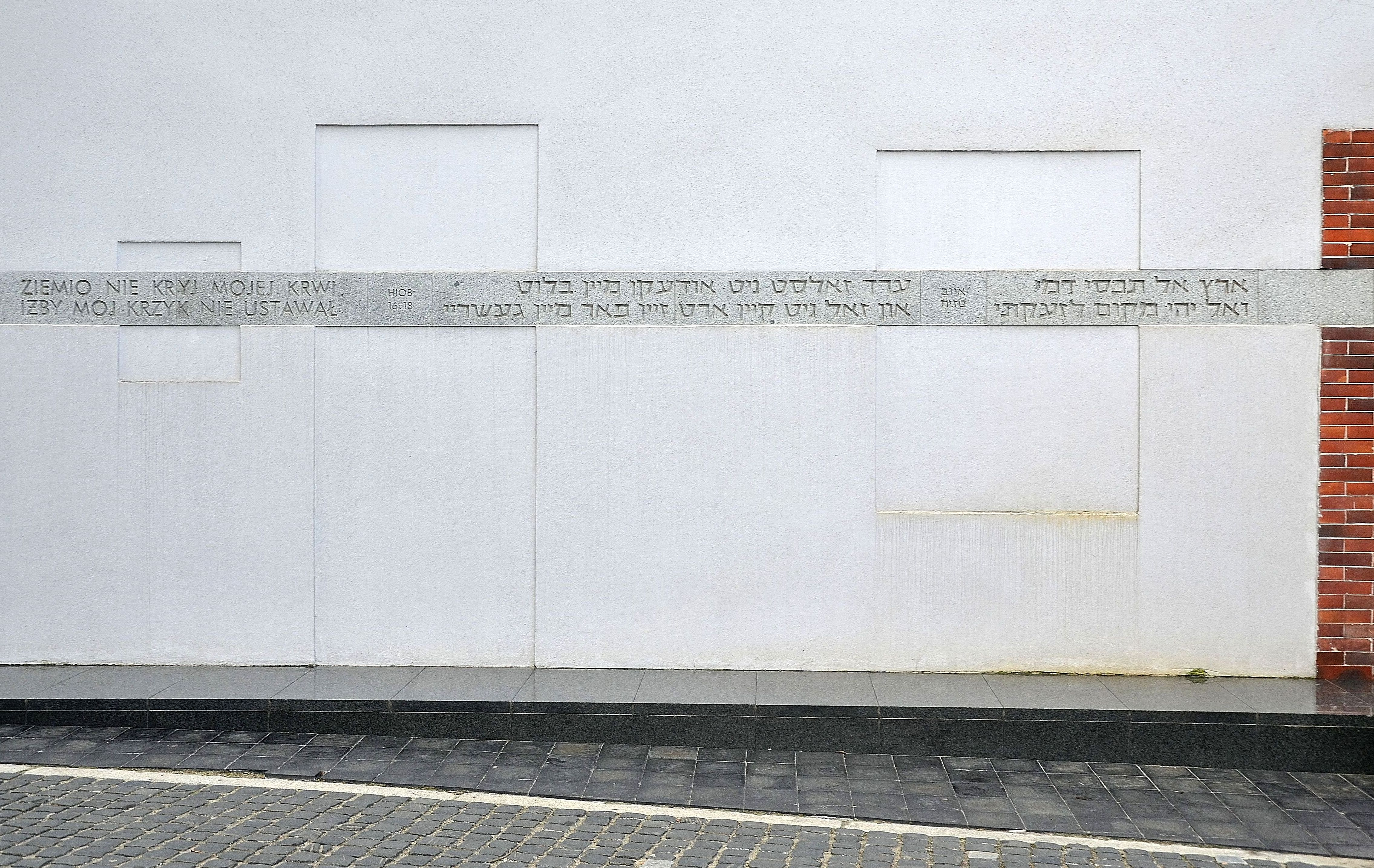 Umschlagplatz Monument in Warsaw. A quatation from the Book of Job on the side wall of the former school adjoining the monument